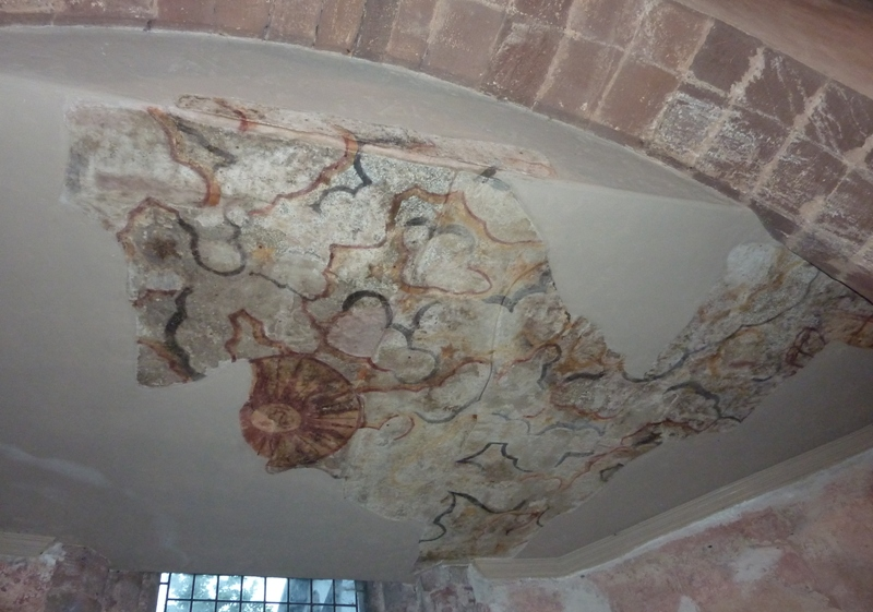 Innerpeffray Chapel, Perth and Kinross, Scotland. Tempera painting.